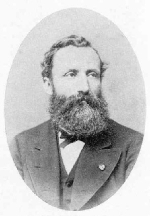 Portrait (photography) of Dr. med. Alexander Pagenstecher (1828-1879), German Ophtalomogist